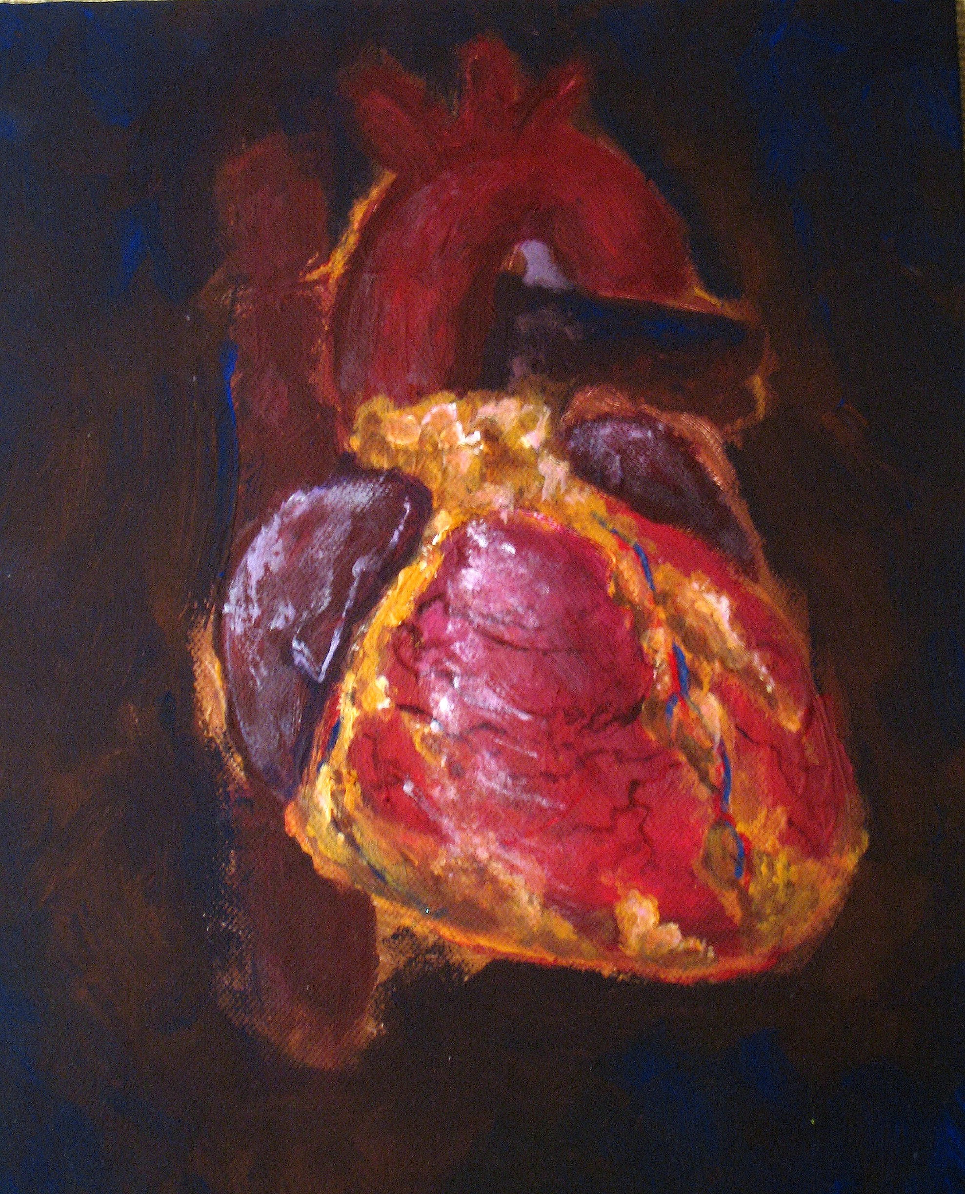 Painting of a heart (anatomical, not "heart-shaped")